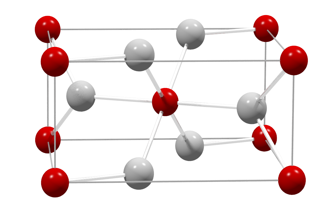 Structure of Lollingite, Kjekshus A, Rakke T, Andresen A, Acta Chemica Scandinavica A28 (1974) 996-1000, Compounds of the marcasite type crystal structure. IX. Structural data for FeAs2, FeSe2, NiAs2, NiSb2, and CuSe2